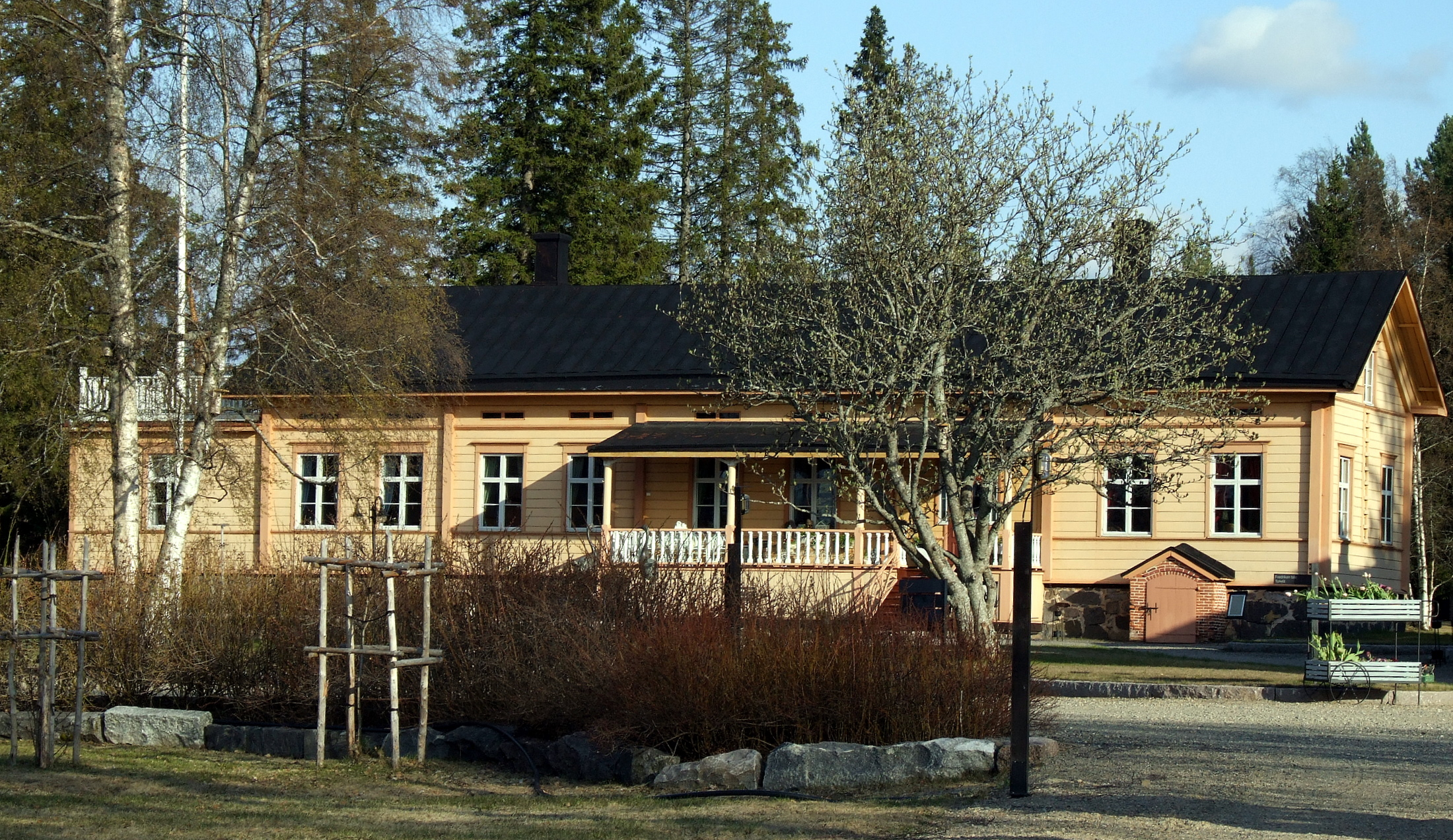 Maikkula Mansion and garden. The main building was built in 1830's.